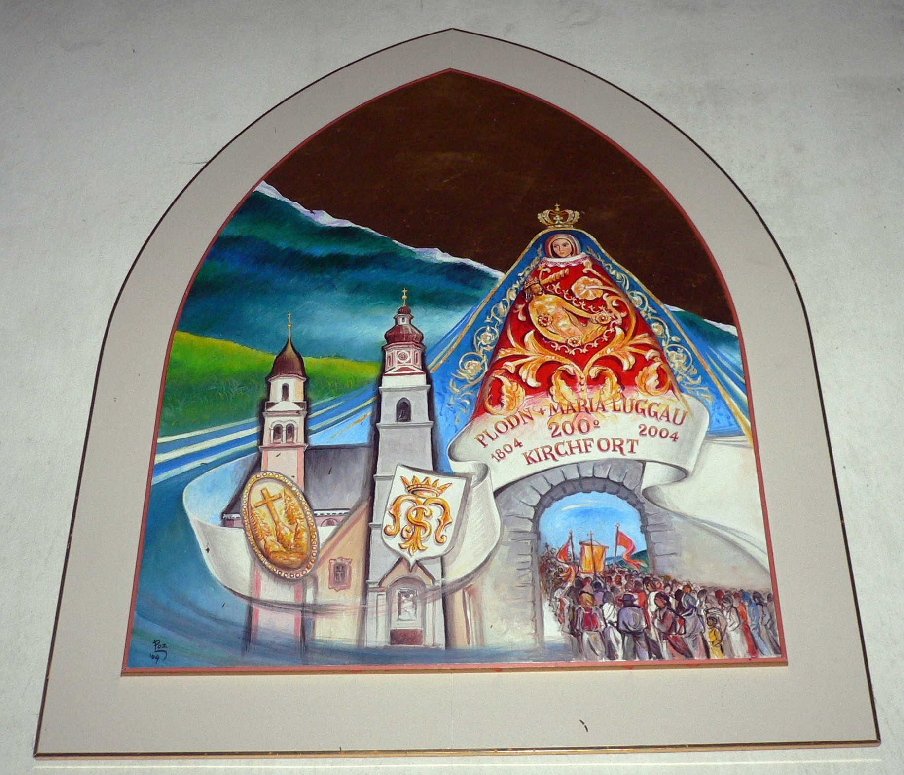 In memory of 200 years of pilgrimage Sappada (Plodn) - Maria Luggau